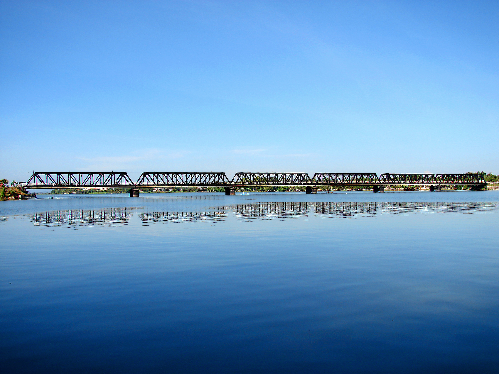 Kallady Bridge: It is one of the longest bridges of Sri Lanka. The bridge was built in 1924 during the time of Sir William Henry Manning - Governor of British Ceylon.